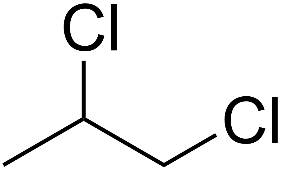 Chemical structure of 1,2-dichloropropane